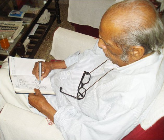 Image of cartoonist Toms, created from Wikimedia image File:InterviewTOpsd.jpg